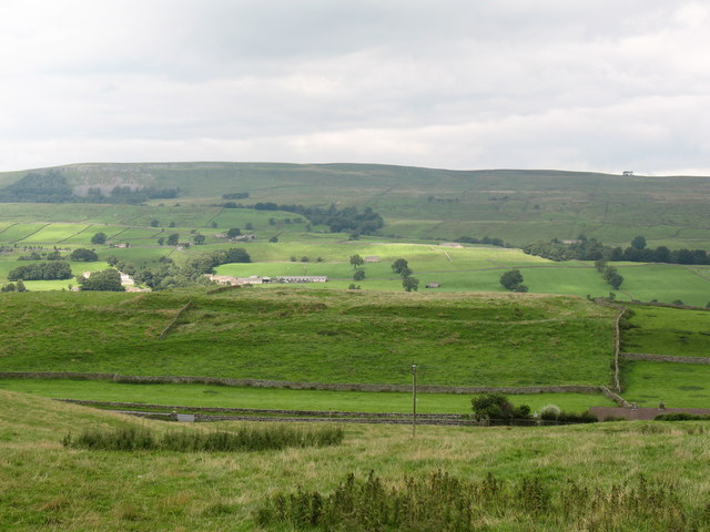 Bainbridge Roman Fort The Roman fort of Virosidum occupies a glacial mound to the east of the present village and is best viewed from the hillside to the south of the main road. The fort dates from the early 2nd century AD and was probably in use until the early 5th century. Built probably to keep the local Brigantes tribe in check, it was connected to other Roman forts and settlements in Lancashire by the very fine road that runs over the fells to the SW. There must also have been a road connecting this fort with those at Wensley and at Catterick, but there is very little evidence of a Roman road in Wensleydale.